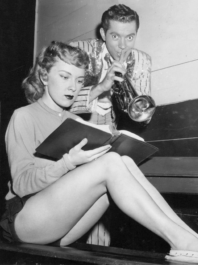 1958 James Grogan Olympic Figure Skater with Ice Capades Press Photo